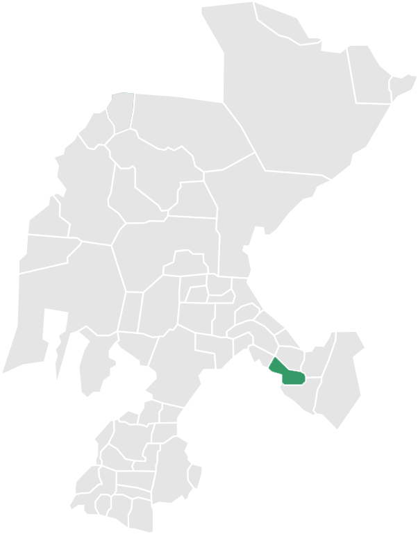 Map of the Municipality of Loreto in Zacatecas, México.